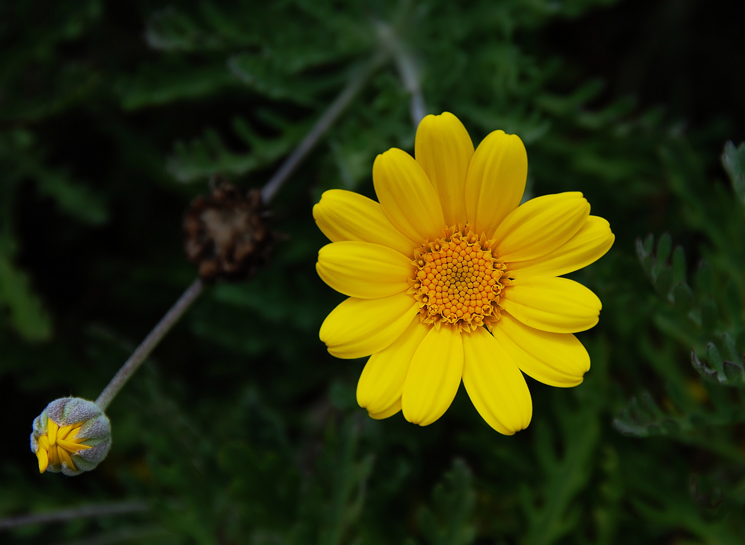 Flower and bud of yellow chamomile (Anthemis tinctoria).